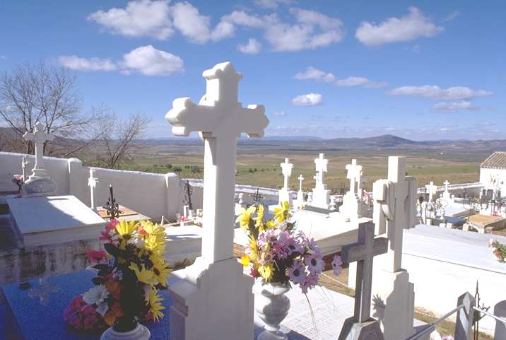 A scenic cemetery in rural Spain showing marble headstones. Copyright (c) 1996 Steven J. Dunlop, Nerstrand, MN